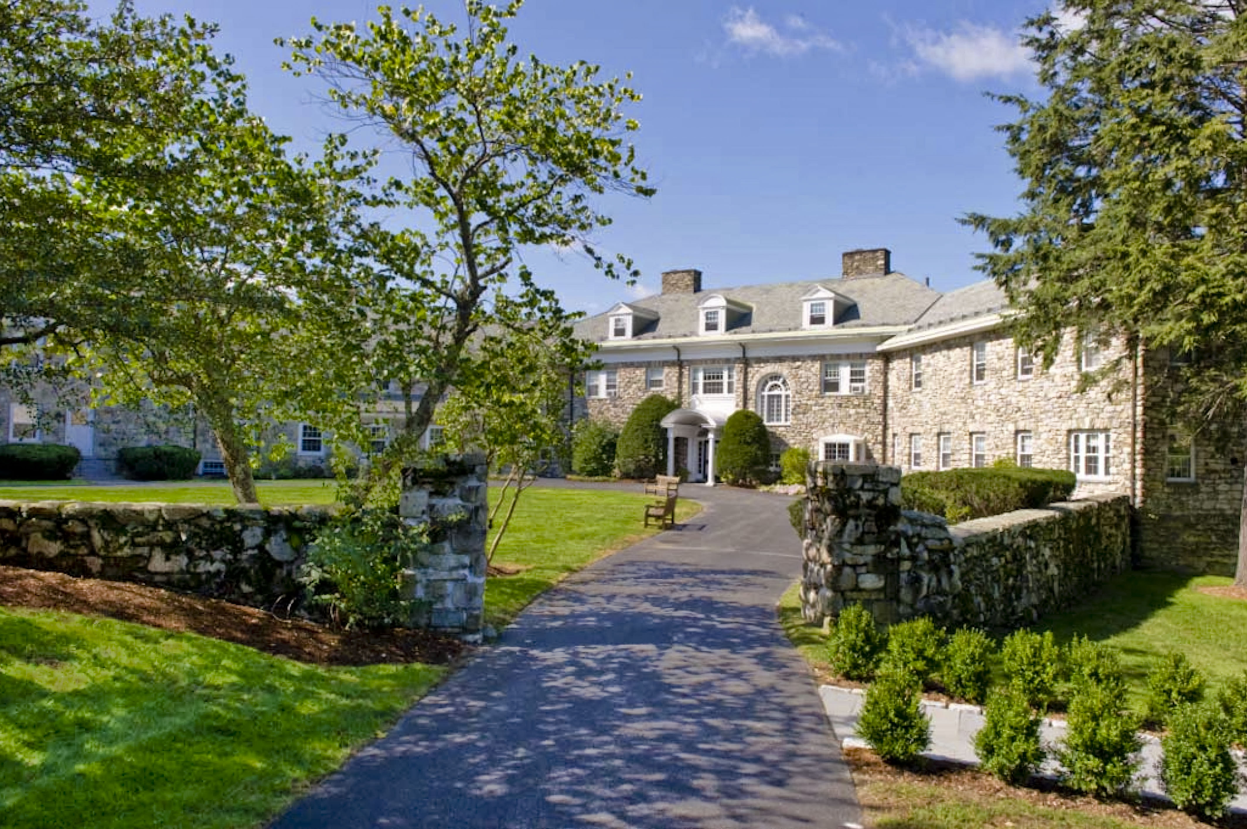 The front view of the Connors Center.